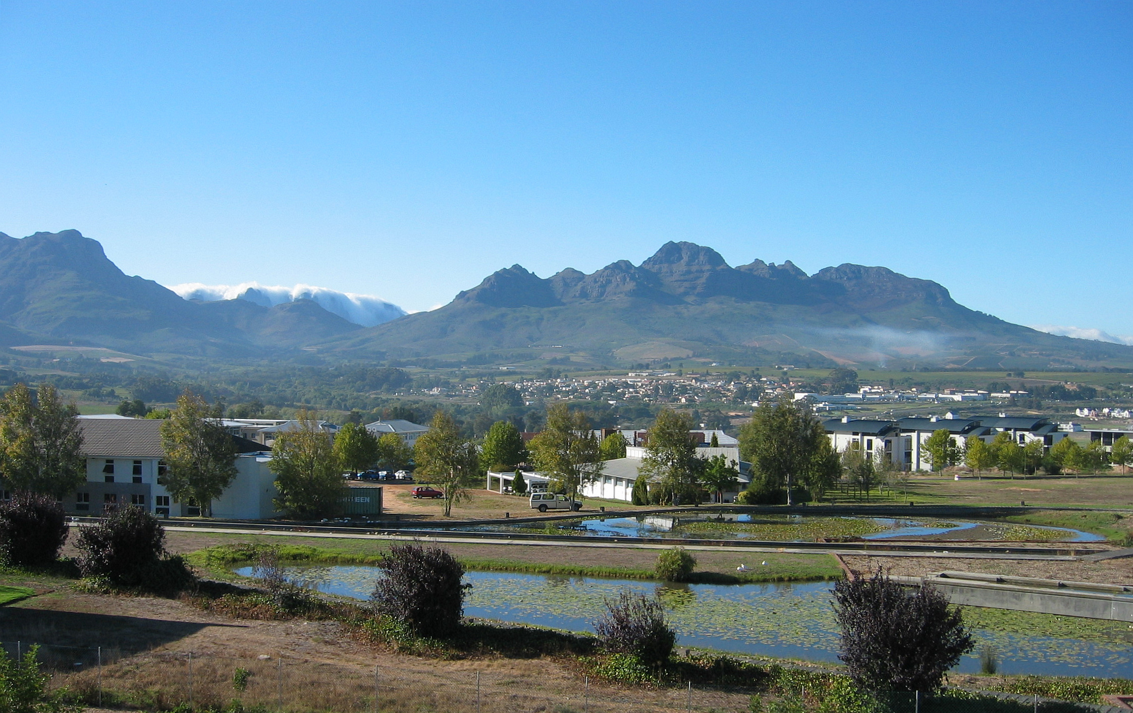 The view from Technopark, just outside Stellenbosch